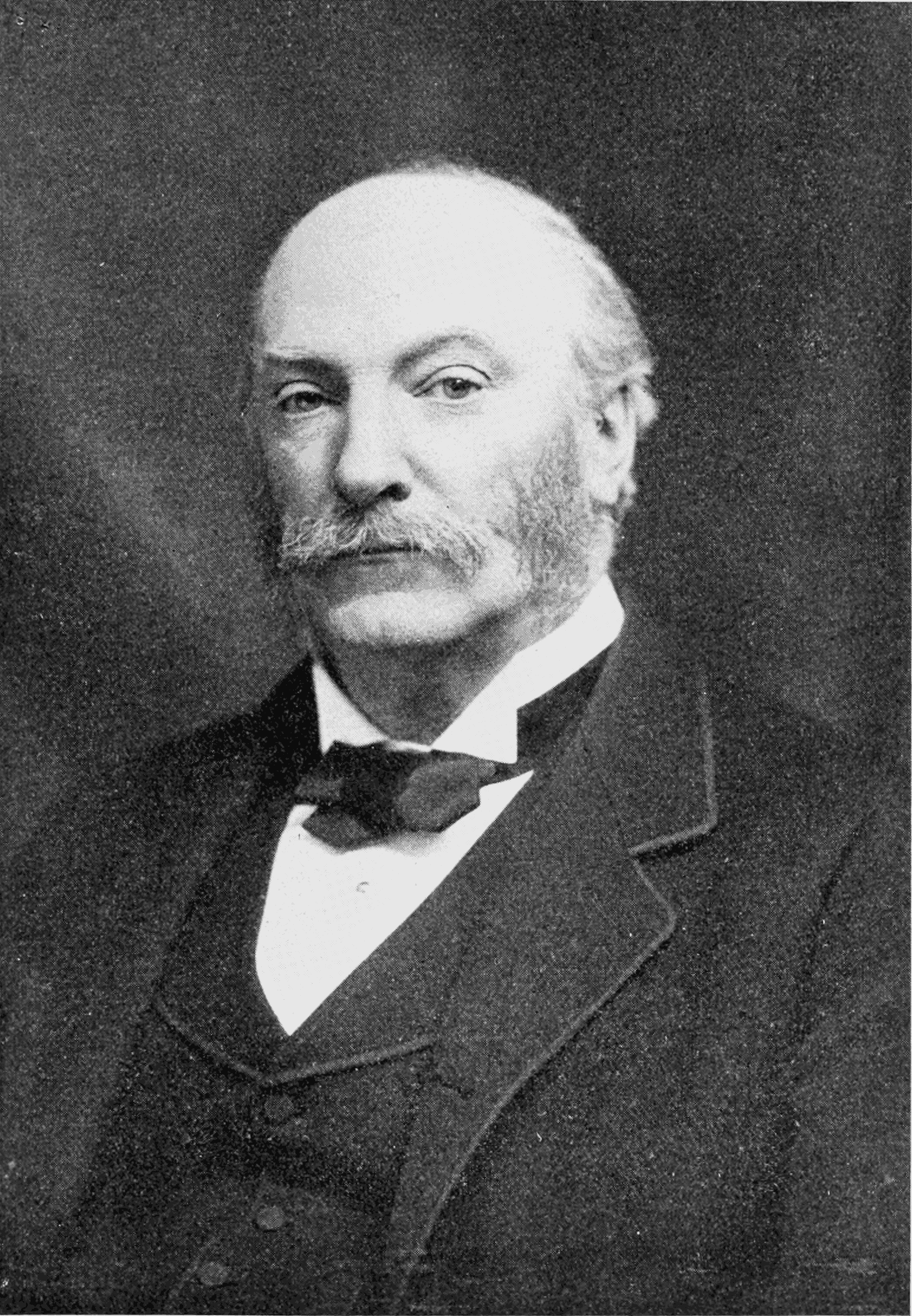 John William Strutt